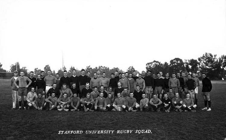 The Stanford University rugby team that played New Zealand (All Blacks) during their tour on USA.